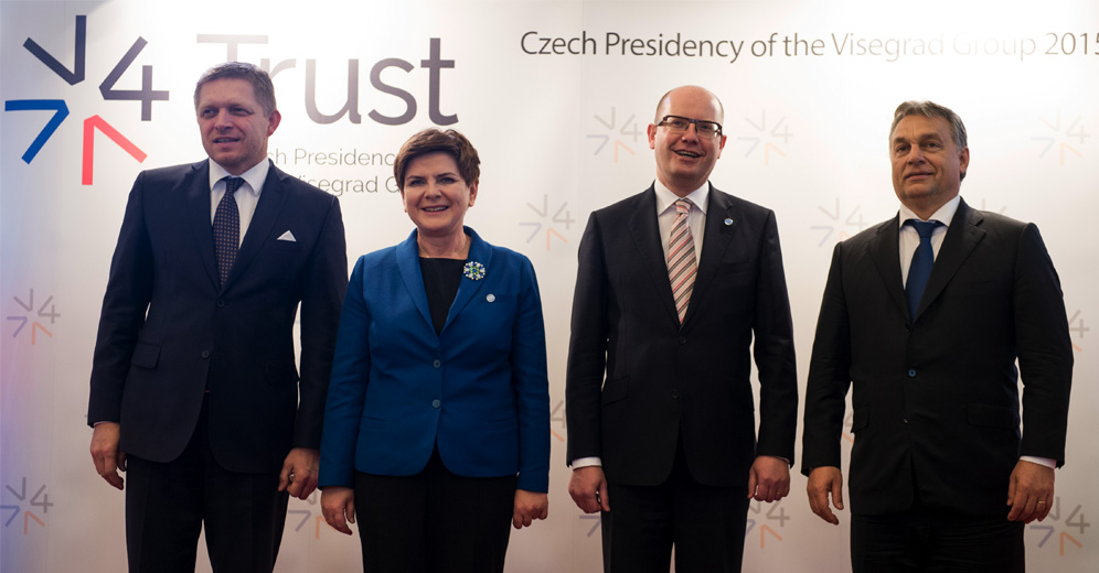 V4 Summit + South Korea in Prague on 3 December 2015